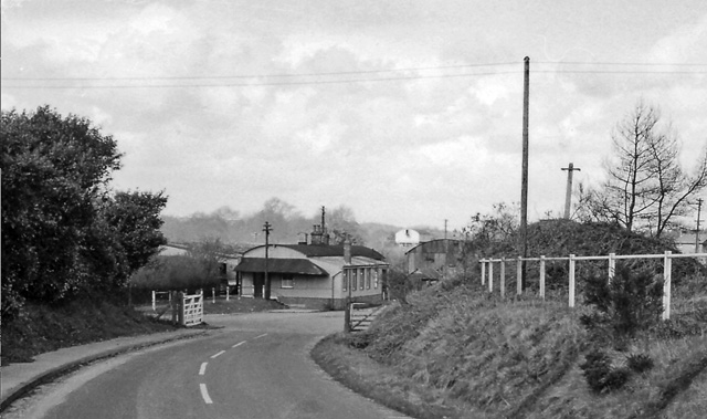 Bordon Station, approach. View northward to station entrance. This was the terminus of the ex-LSW branch from Bordon, also the northern end of the Longmoor Military Railway complex. It closed to passengers on 16/9/57, to goods on 4/4/66.